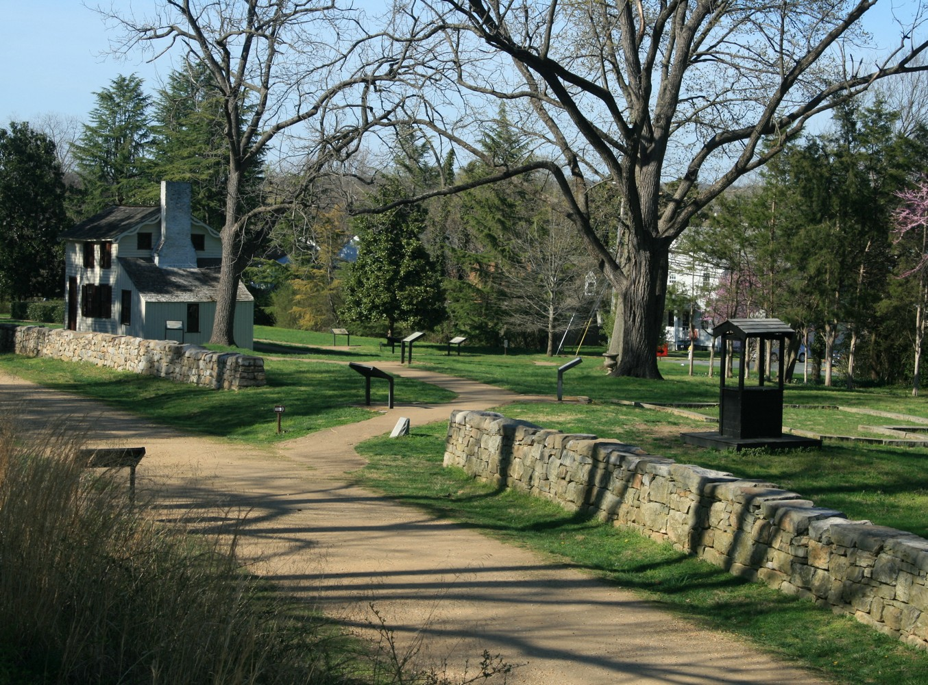 Stone Wall at Fredericksburg and Innis House